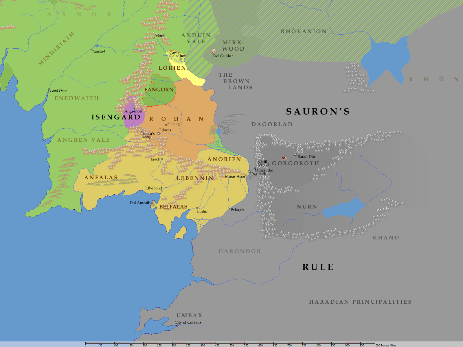 Map of middle-earth, the fictional setting of much of British writer J. R. R. Tolkien's legendarium. Timepoint: TA 3019.